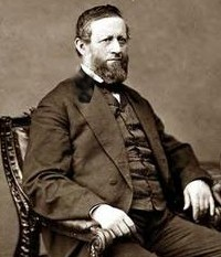 Congressman Benjamin Eggleston